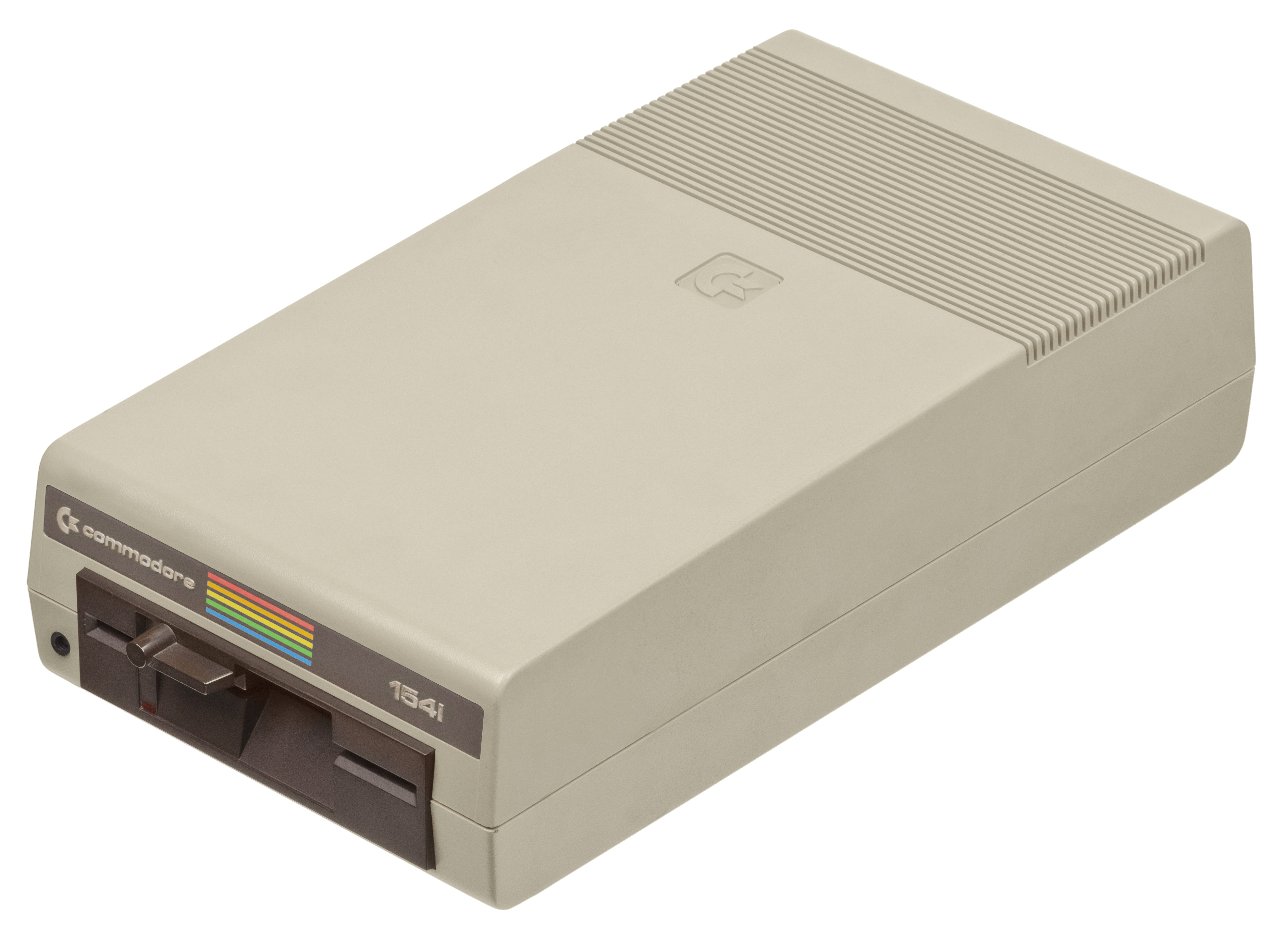 The Commodore 1541, the official 5¼" floppy drive for the Commodore 64 8-bit home computer. Introduced in 1982, the drive retailed for $400 at launch.